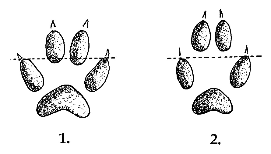 footprints of dog (1) in comparaison with fox (2) Walon: passêye do tchén (1) eneviè l' cene do rnåd (2)